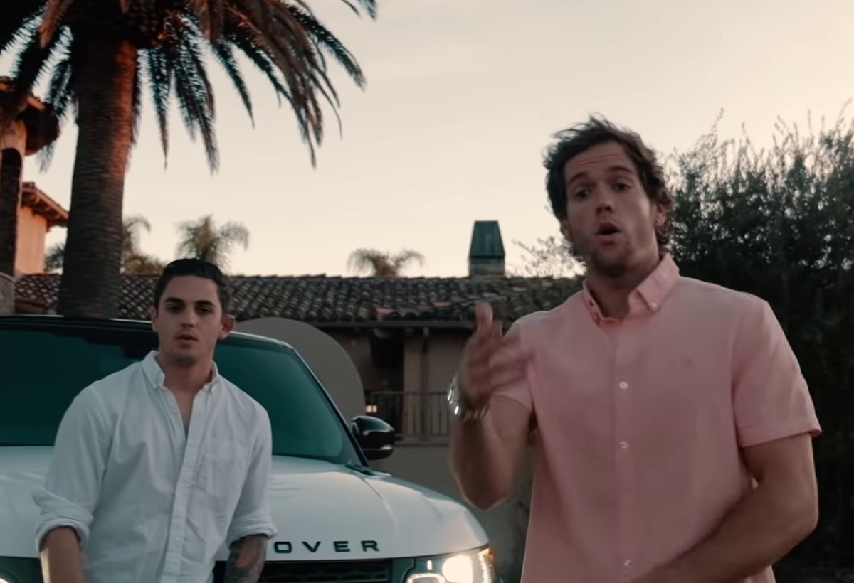 Screenshot of Neffex's music video performing the song Baller.